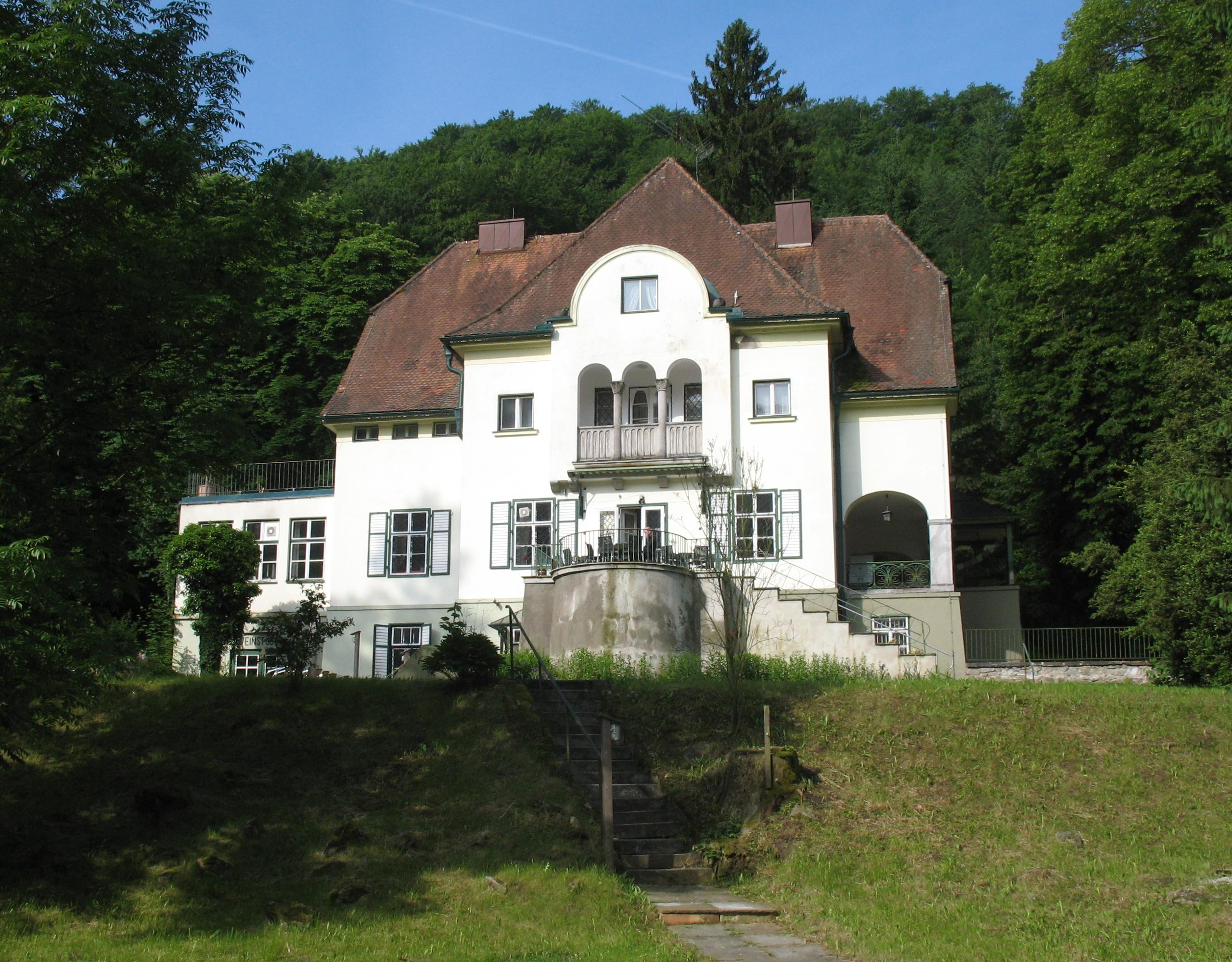 Hunting lodge in Dunkelsteinerwald-Kochholz, Austria